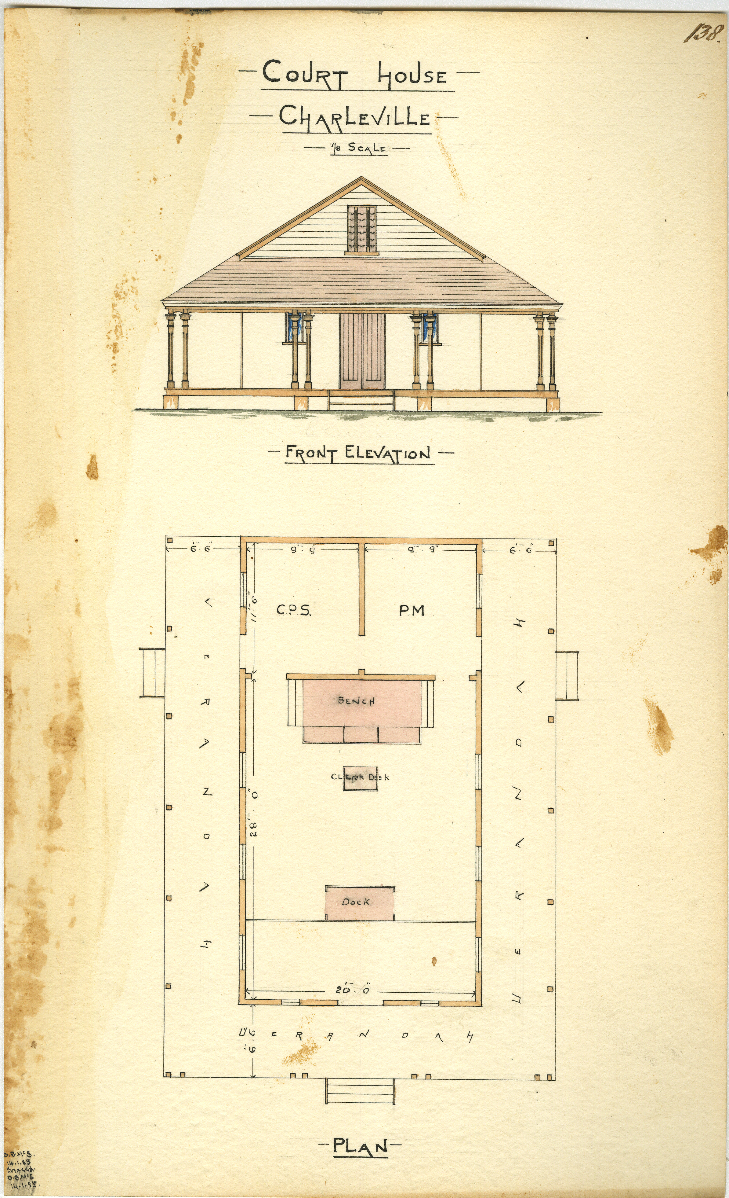 Architectural drawing of the Court House, Charleville, 14 January 1885